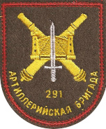 291st Artillery Brigade shoulder sleeve insignia (Russia)